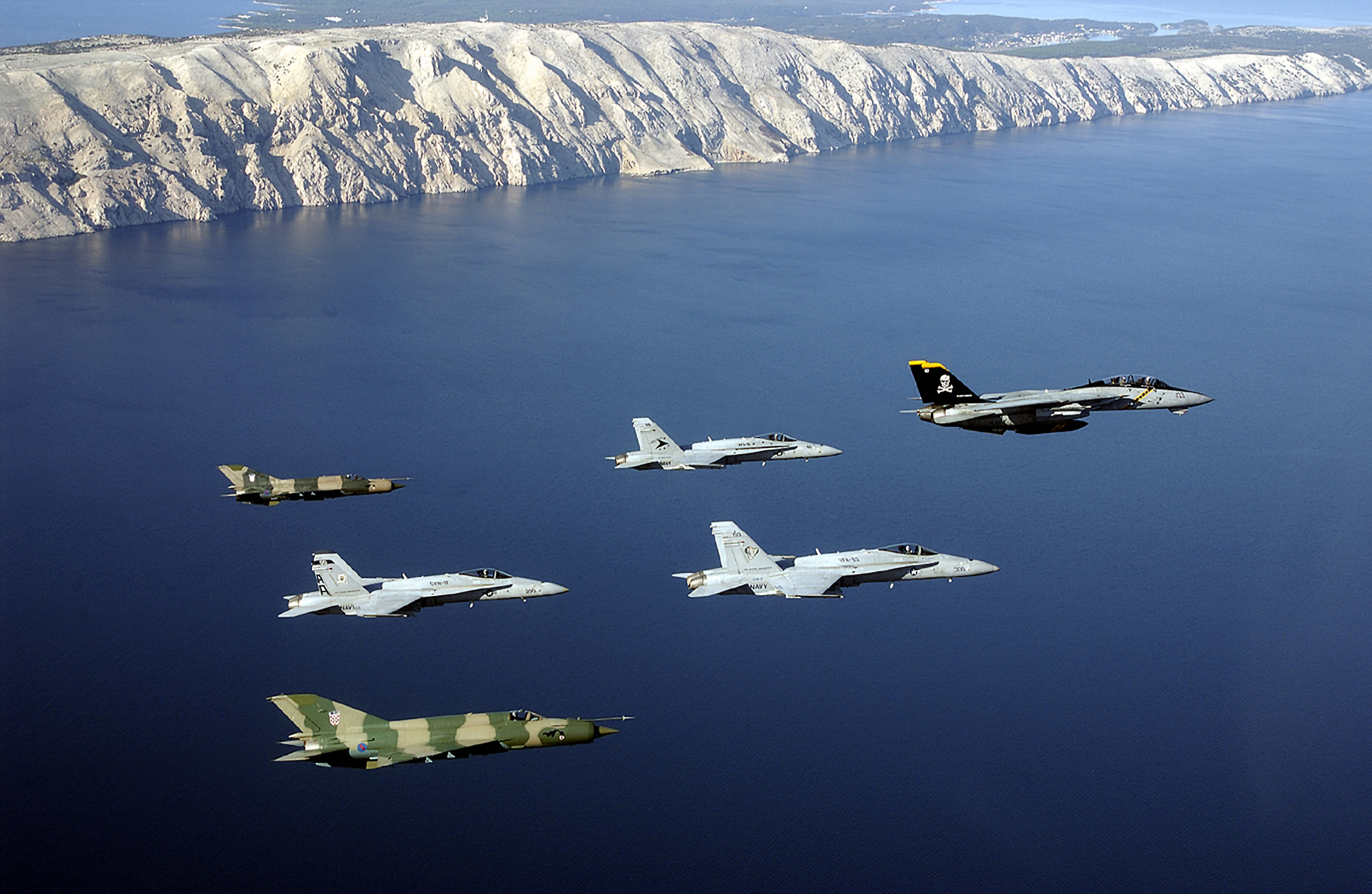 Pula, Croatia -- An F-14 “Tomcat” fighter assigned to the “Jolly Rogers” of Fighter Squadron One Zero Three (VF-103) leads a formation comprised of F/A-18 “Hornet” strike fighters from the “Blue Blasters” of VFA-34, the “Sunliners” of VFA-81, and the “Rampagers” of VFA-83. U.S. aircraft belong to Carrier Air Wing Seventeen (CVW-17), currently embarked on board. Two Croat MiG-21 “Fishbed” fighter-interceptors flank the each side of the formation. U.S. Navy aviation squadrons assigned to Carrier Air Wing Seventeen (CVW-17) have sent a detachment to Croatia in order to participate in Joint Wings 2002. Joint Wings is a multinational exercise between the U.S. and the Croat Air Force designed to practice intelligence gathering. George Washington is homeported in Norfolk, Va., and is nearing the end of a scheduled six month deployment after completing combat missions in support of Operations Enduring Freedom and Southern Watch. U.S. Navy photograph by CAPT Dana Potts. (RELEASED)